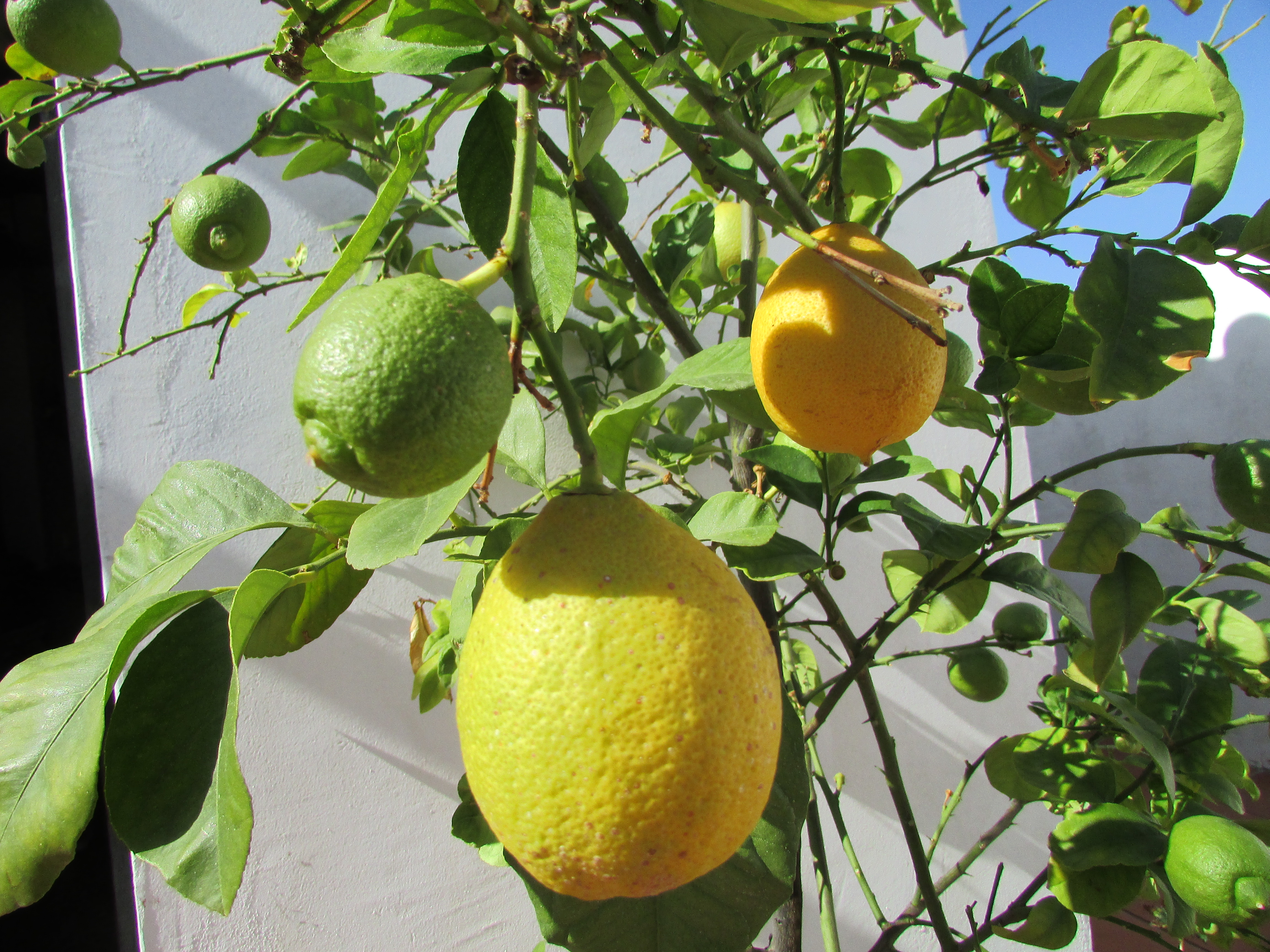 Ripening lemons on a tree in a garden located in the neighbourhood of Areias de São João within the city of Albufeira, Algarve, Portugal.